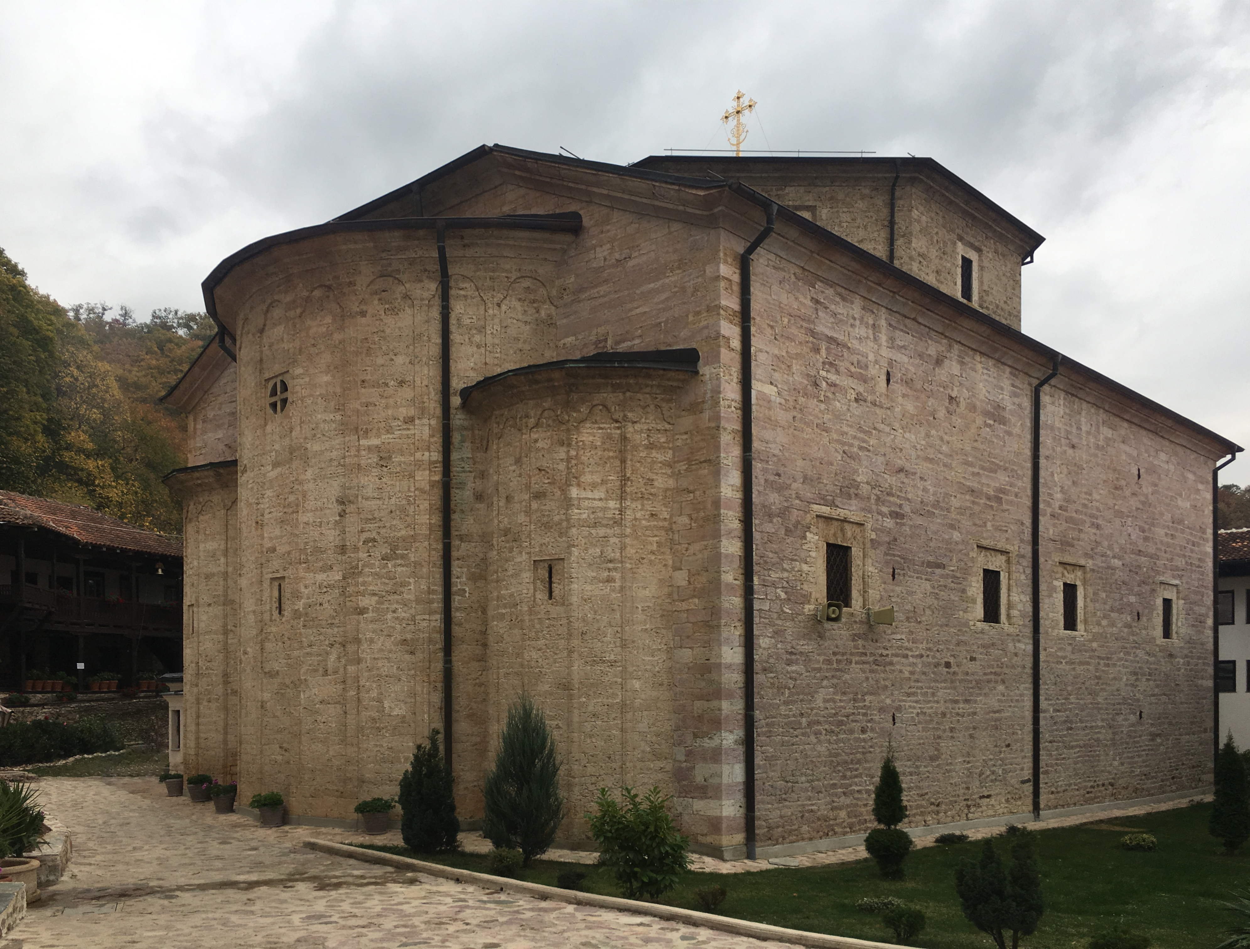 Wikiexpedition to Kopačka